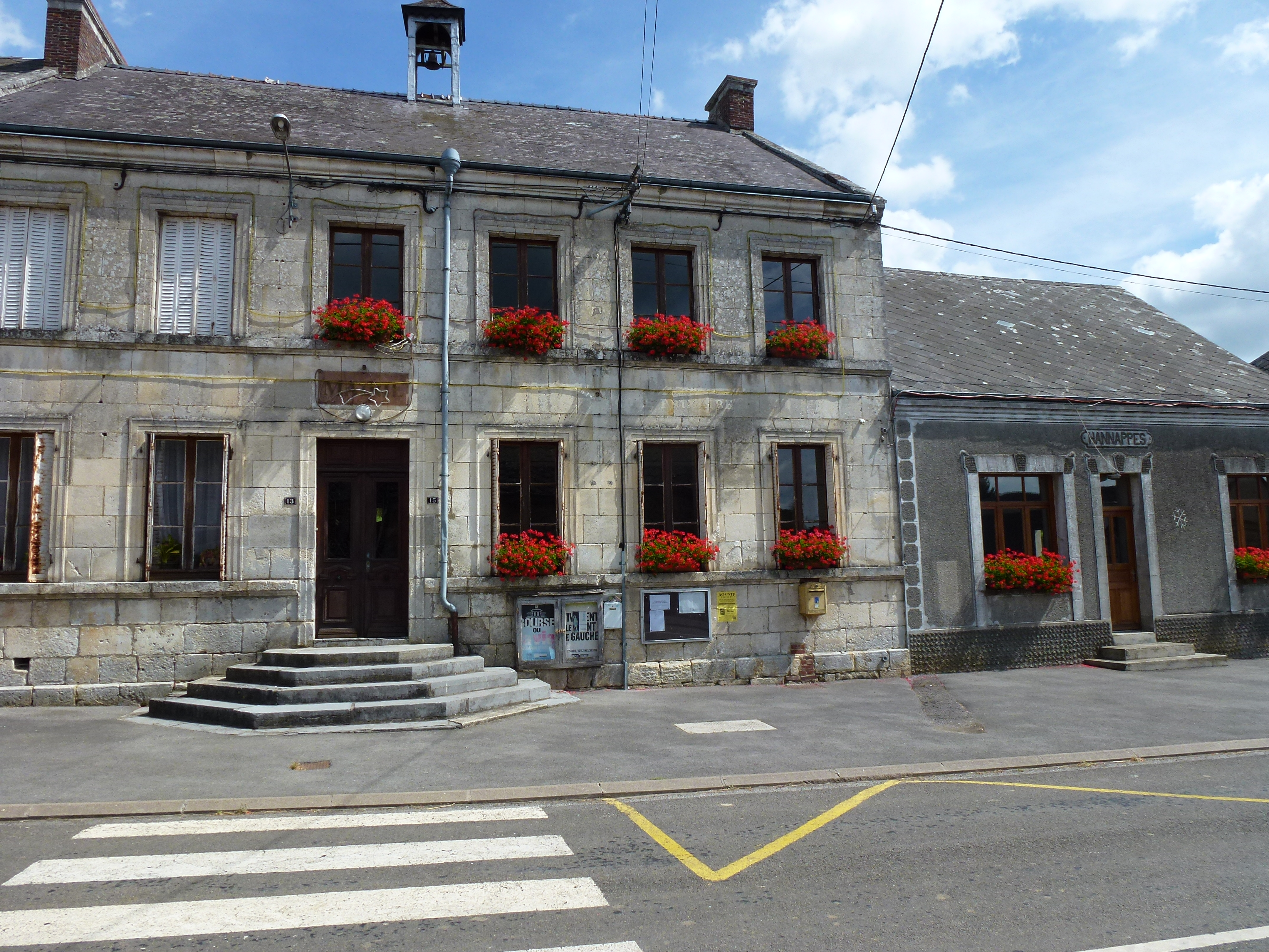 Hannappes (Ardennes) mairie - école